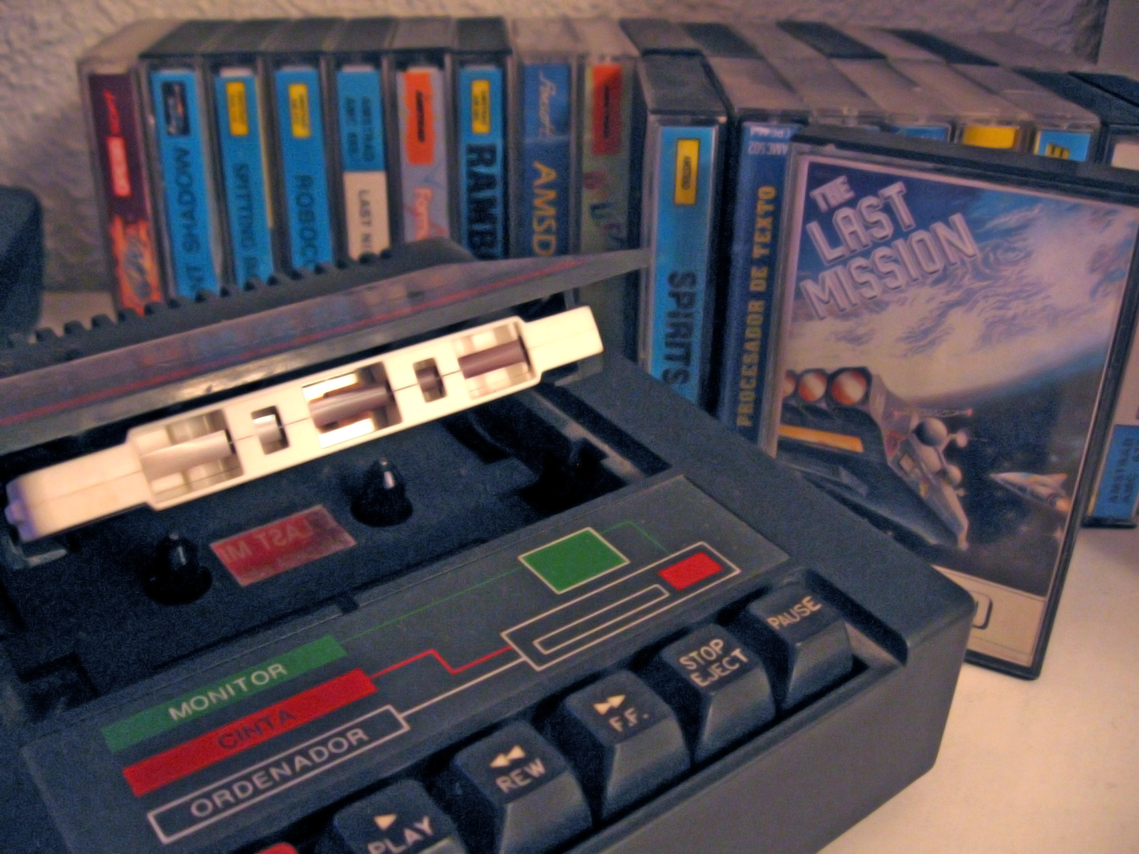 Amstrad CPC cassette deck